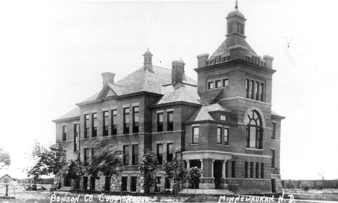 Photo postcard of Benson County Courthouse, Minnewaukan, North Dakota. Image in public domain as first published before 1923. Source information at NDSU web site indicates the card dates from the years 1901-1910.